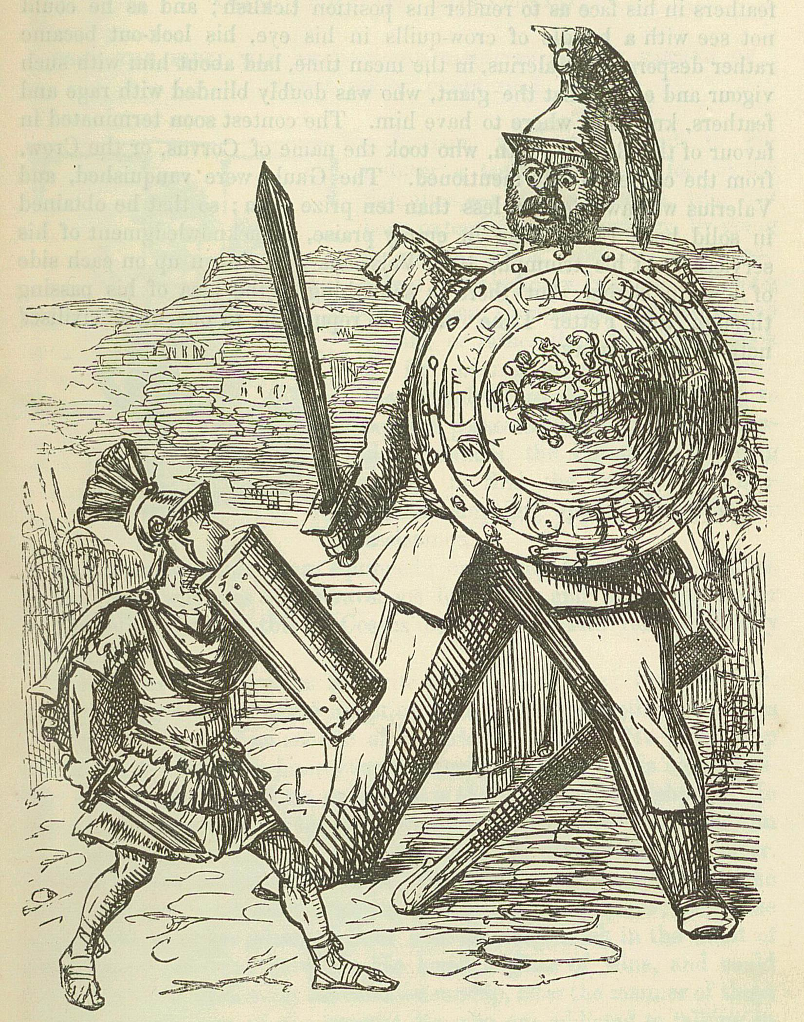 Image by John Leech, from: The Comic History of Rome by Gilbert Abbott A Beckett. Bradbury, Evans & Co, London, 1850s Terrific Combat between Titus Manlius and a Gaul of gigantic Stature